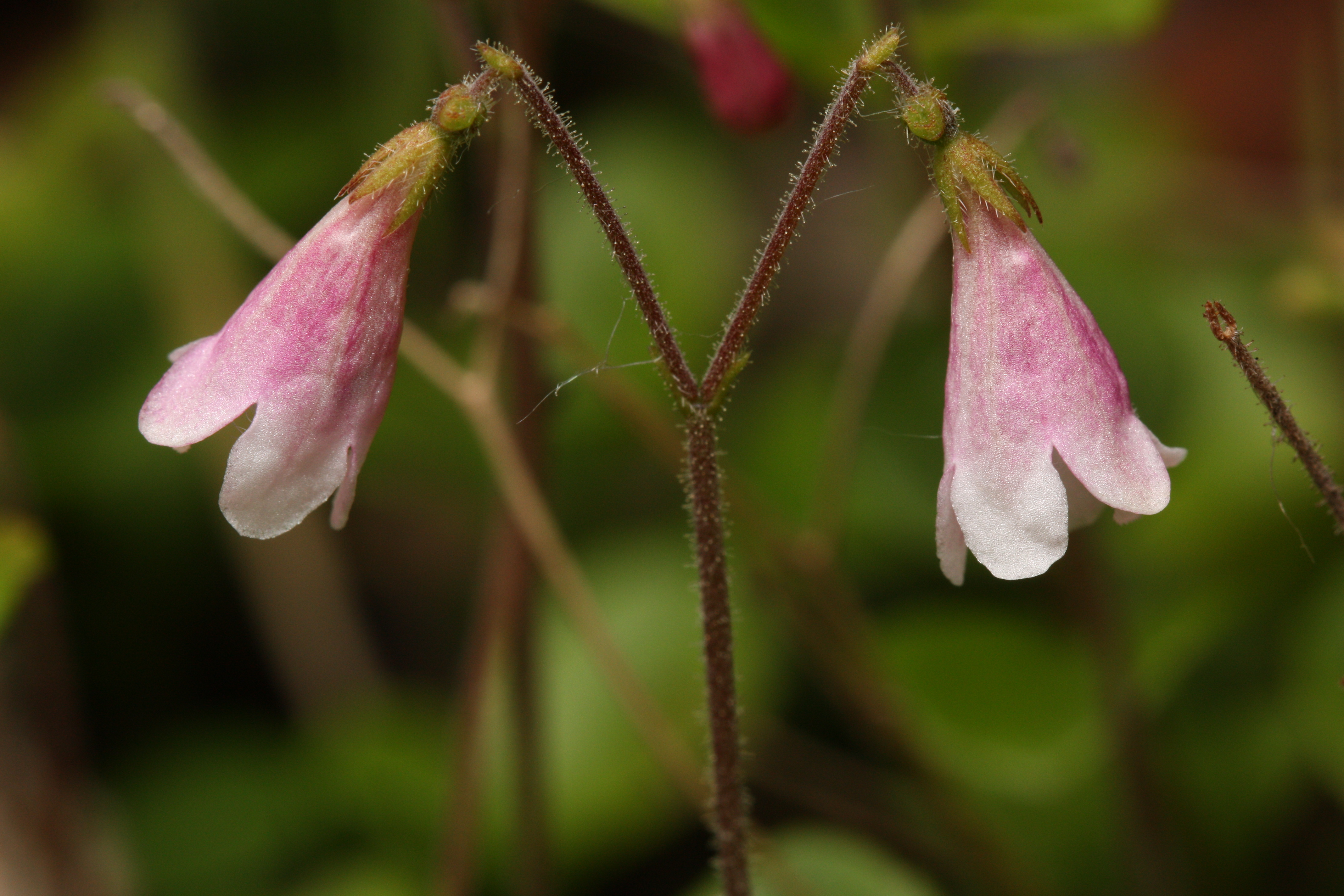 Twin Flower